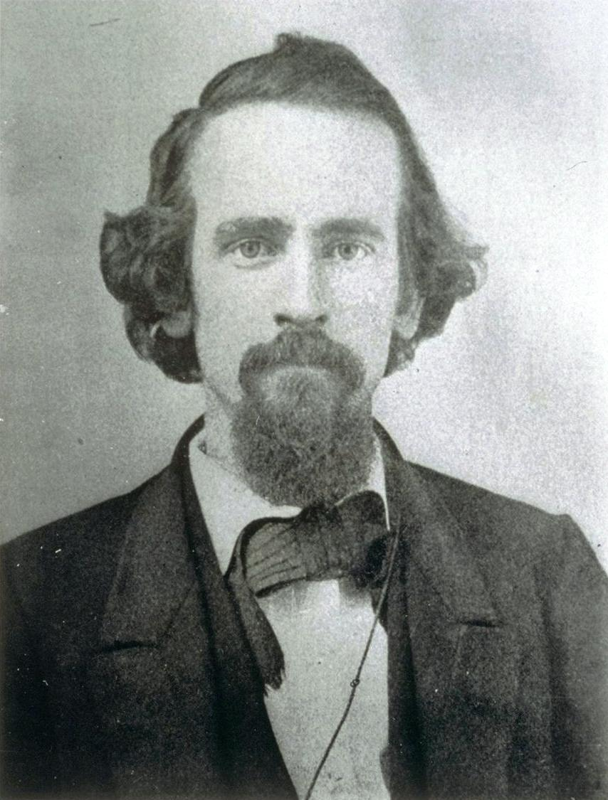 Henry George (1839-1897) at 26, American political economist. Image is a daguerreotype.